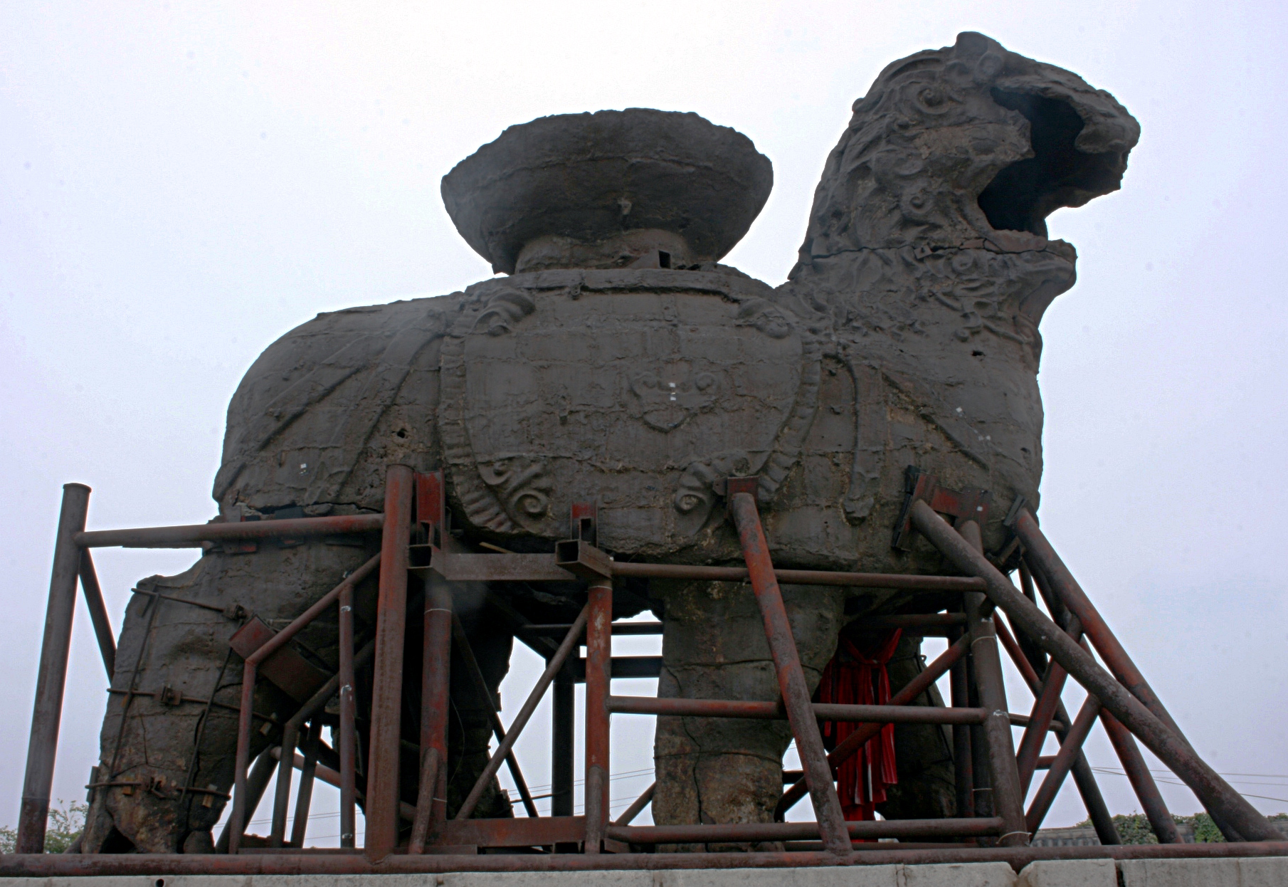 Iron Lion of Cangzhou, town of Cangzhou in Hebei Province, China.